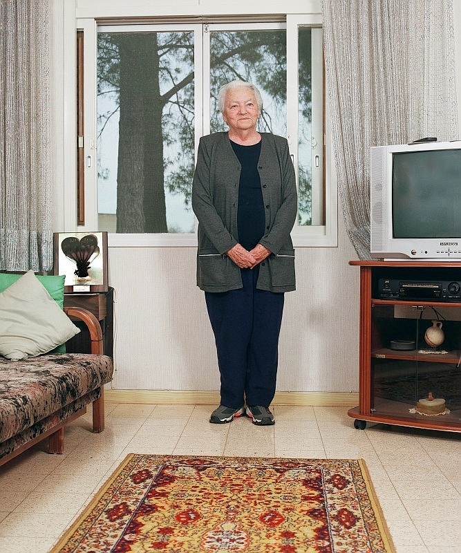 Art of Israel